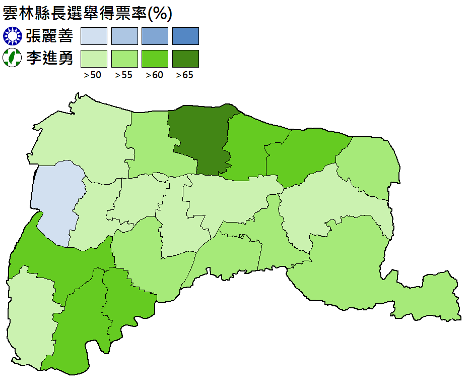 Yunlin 2014